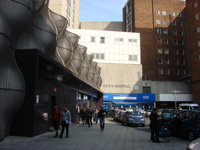 Guy's Hospital, Main entrance